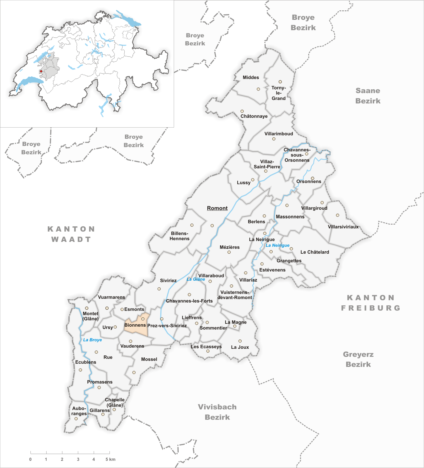 Municipality Bionnens Artist: Tschubby